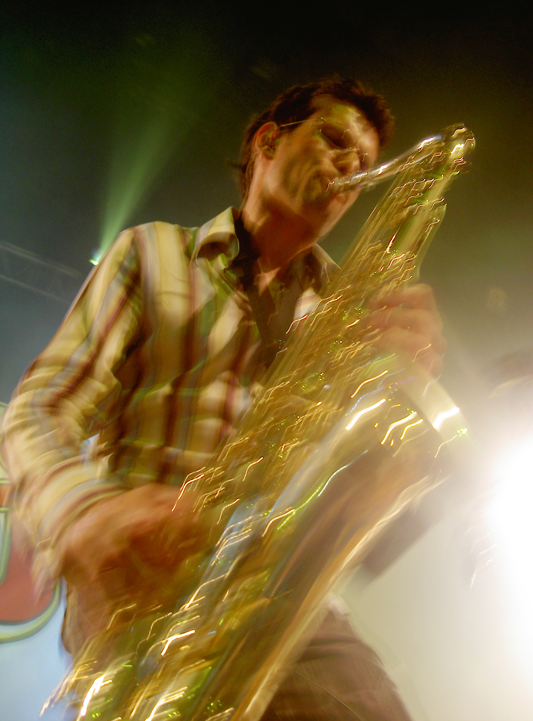 Artist Jérôme Badini playing Tenor Saxohone in Concert Hall Paris-Bercy